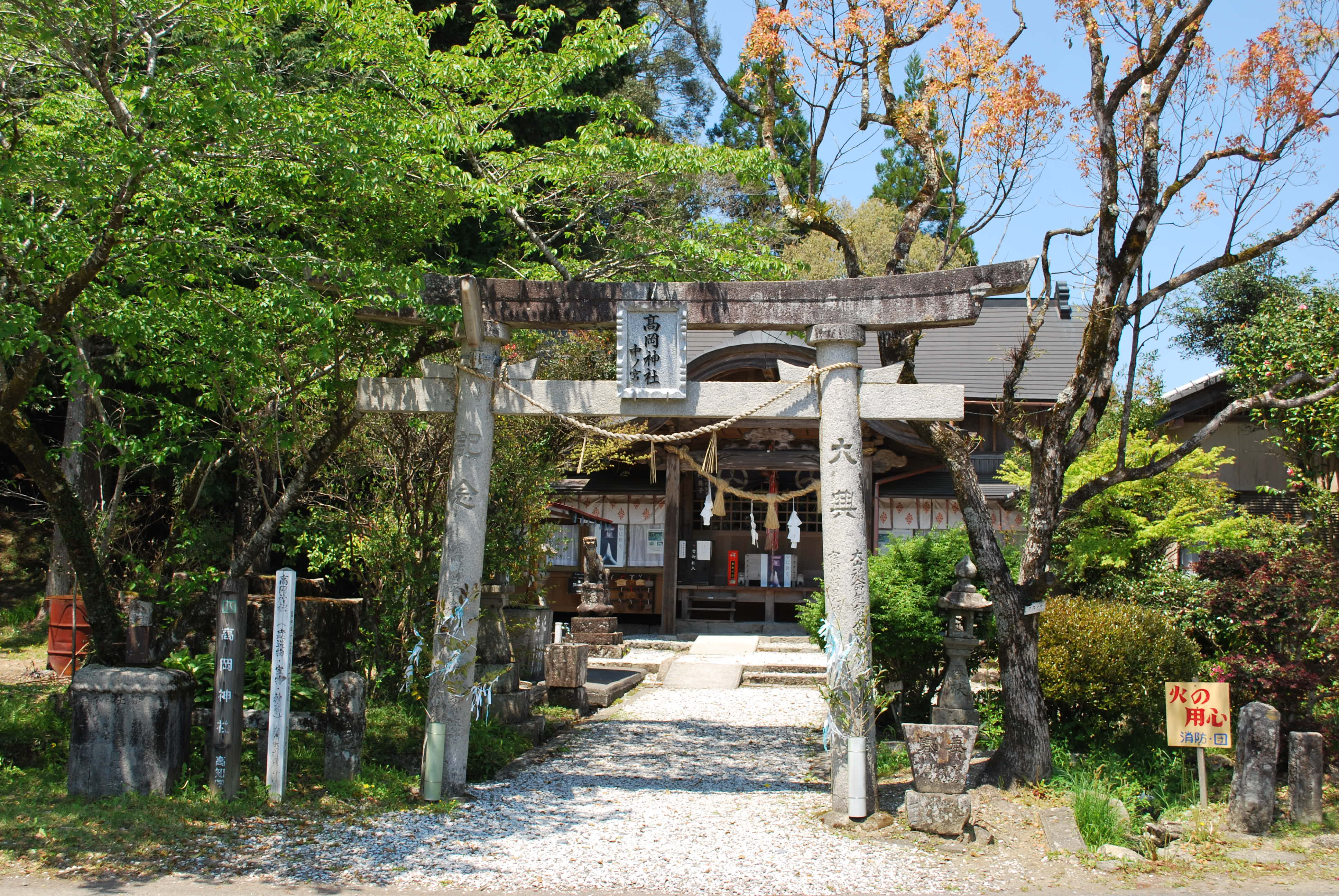 Torii of Naka-no-miya(San-no-miya), Takaoka-jinja